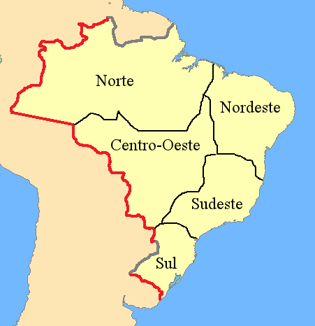 International borders of Brazil in 1889. Locator map of Brazil, based on public domain material from demis.nl